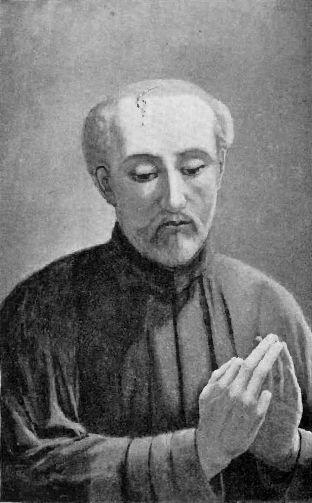 Portrait of Isaac Jogues